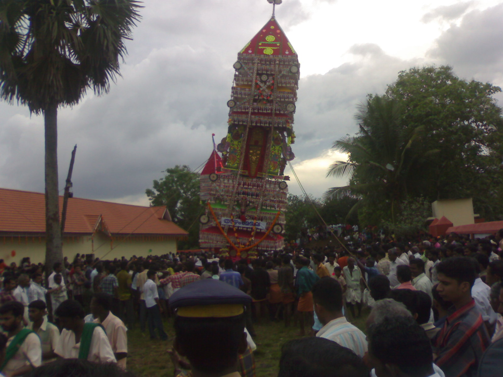 Picture is taken from the festival associated with Sree Durga Devi temple, Chittumala, East Kallada